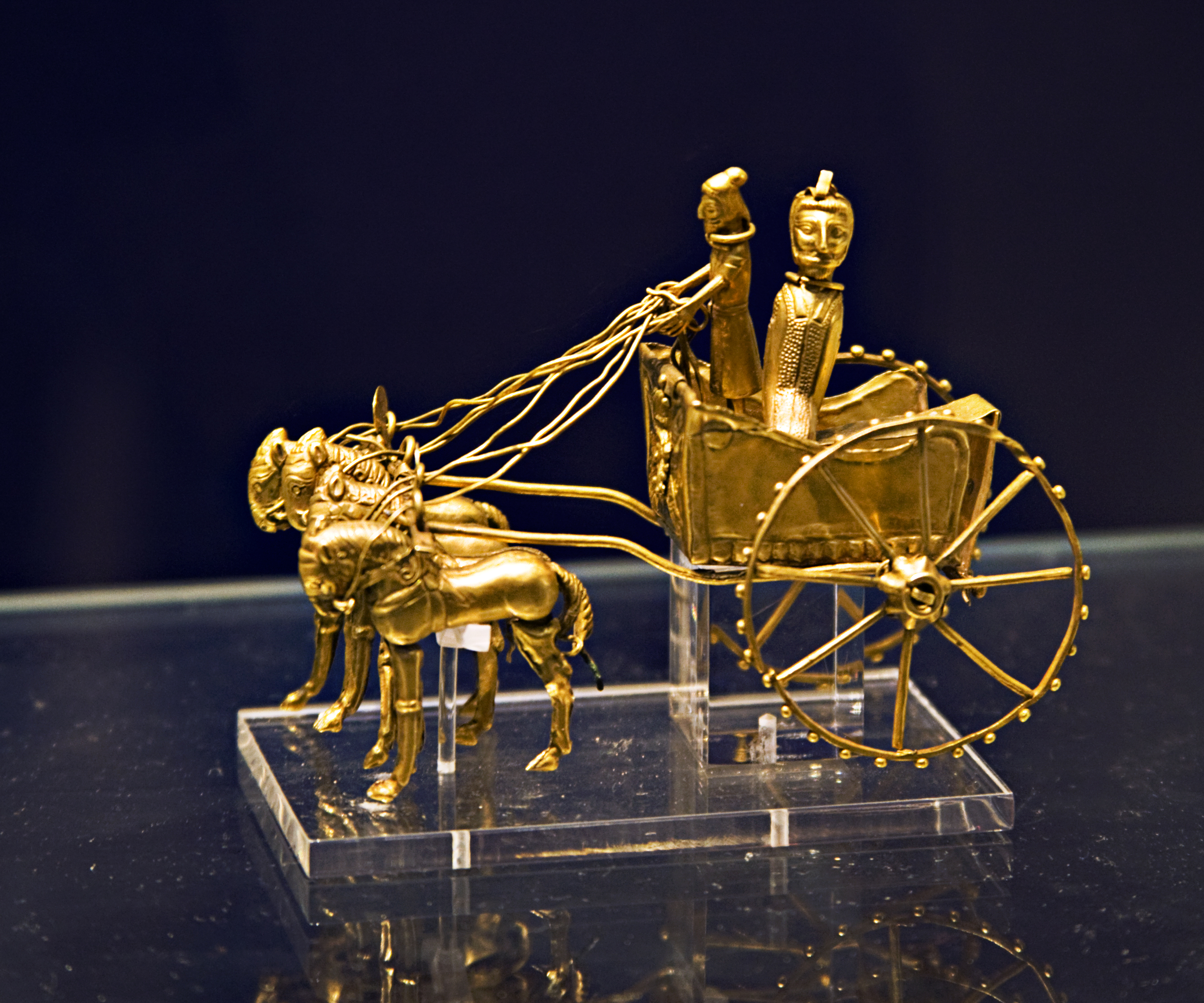 Model chariot made of gold from the Oxus Treasure in the British Museum. Tag on exhibit reads: "Gold Model chariot drawn by a four-horse team. The Egyptian god Bes is depicted on the front of this chariot. Bes was the protective deity of the young, and this would be appropriate if this model chariot was made for a boy. Chariots with the same profile and the wheel construction are shown on sculptures at Persepolis and the so-called Darius seal in this gallery. 5th-4th century BC. Oxus Treasure: 123908. Bequeathed by A. W. Franks." See BM database entry for more details.